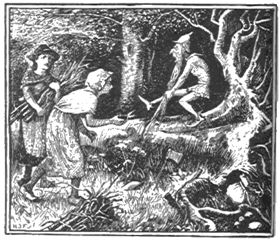 Illustration by H.J. Ford from the 1889 edition of 'The Blue Fairy Book' edited by Andrew Lang